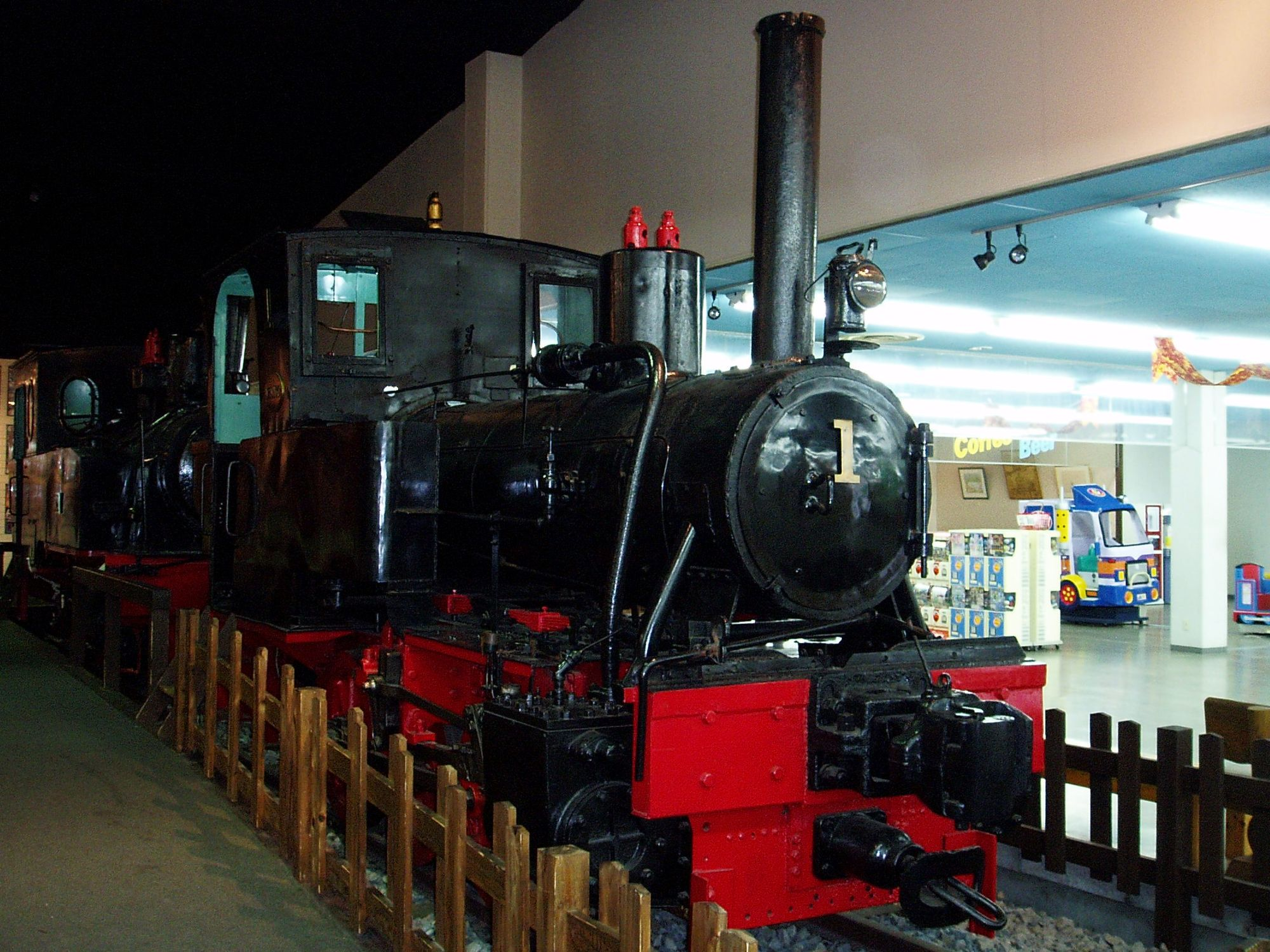 Steam locomotive No.1 "Izumo" of Oigawa Railway.